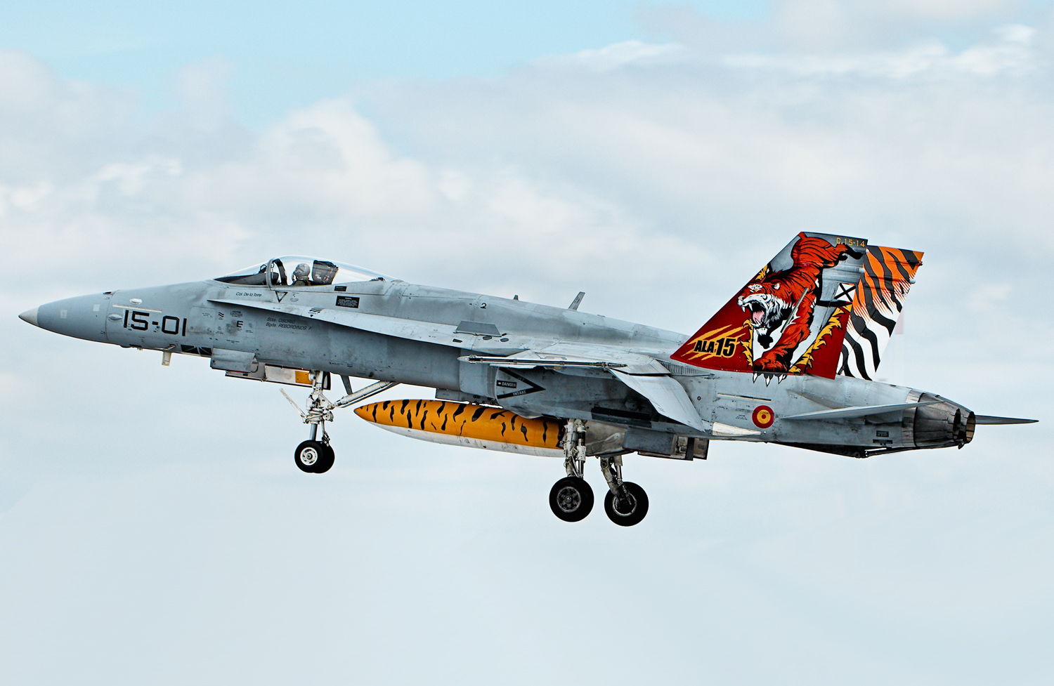 F18 Hornet - RIAT 2017